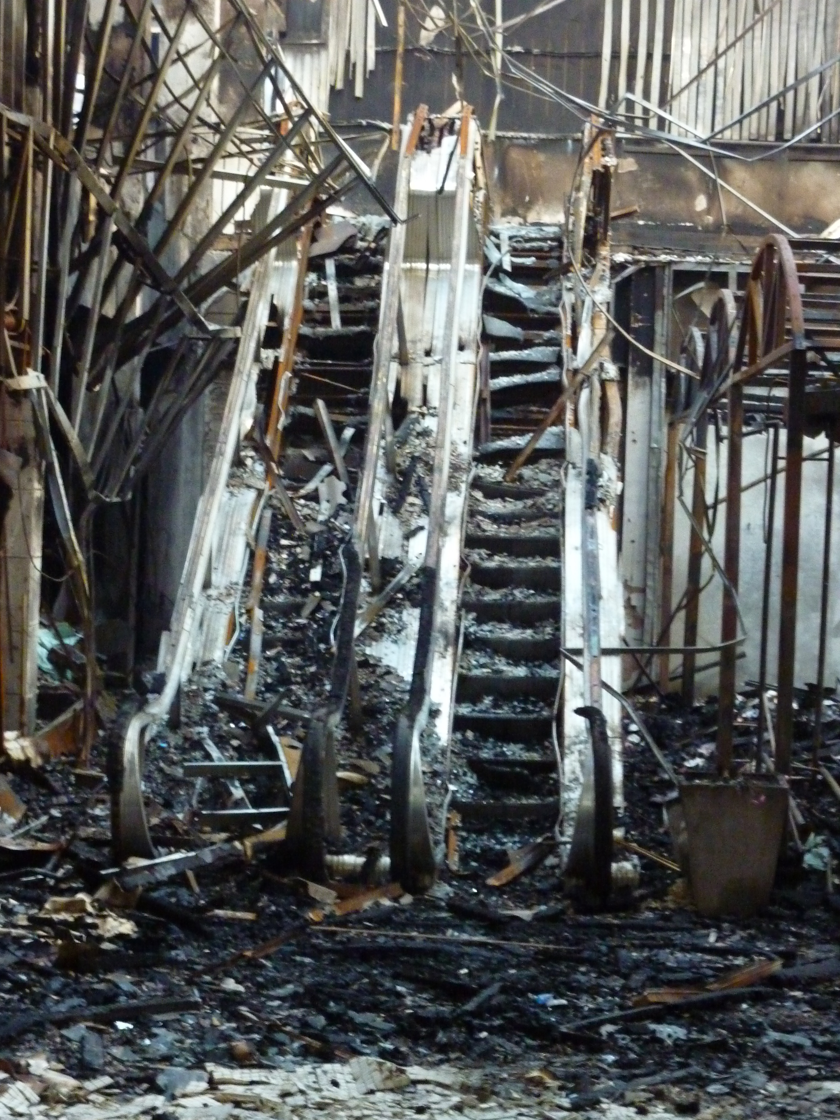 The moving staircase inside the Siam Theatre that was gutted by fire by retreating Redshirts, Bangkok, Thailand, 20 May 2020.